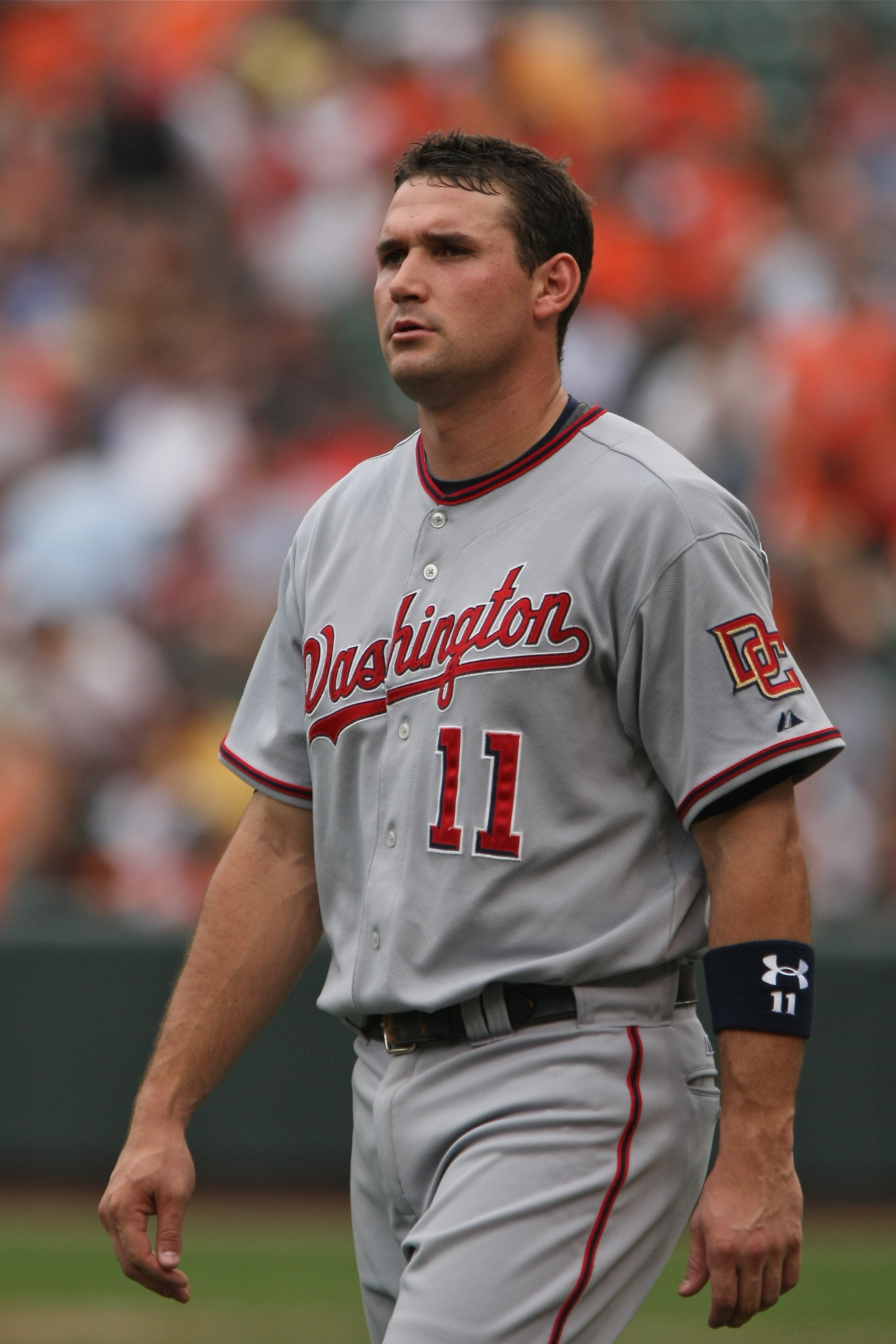 Ryan Zimmerman of the Washington Nationals during a Baseball game.